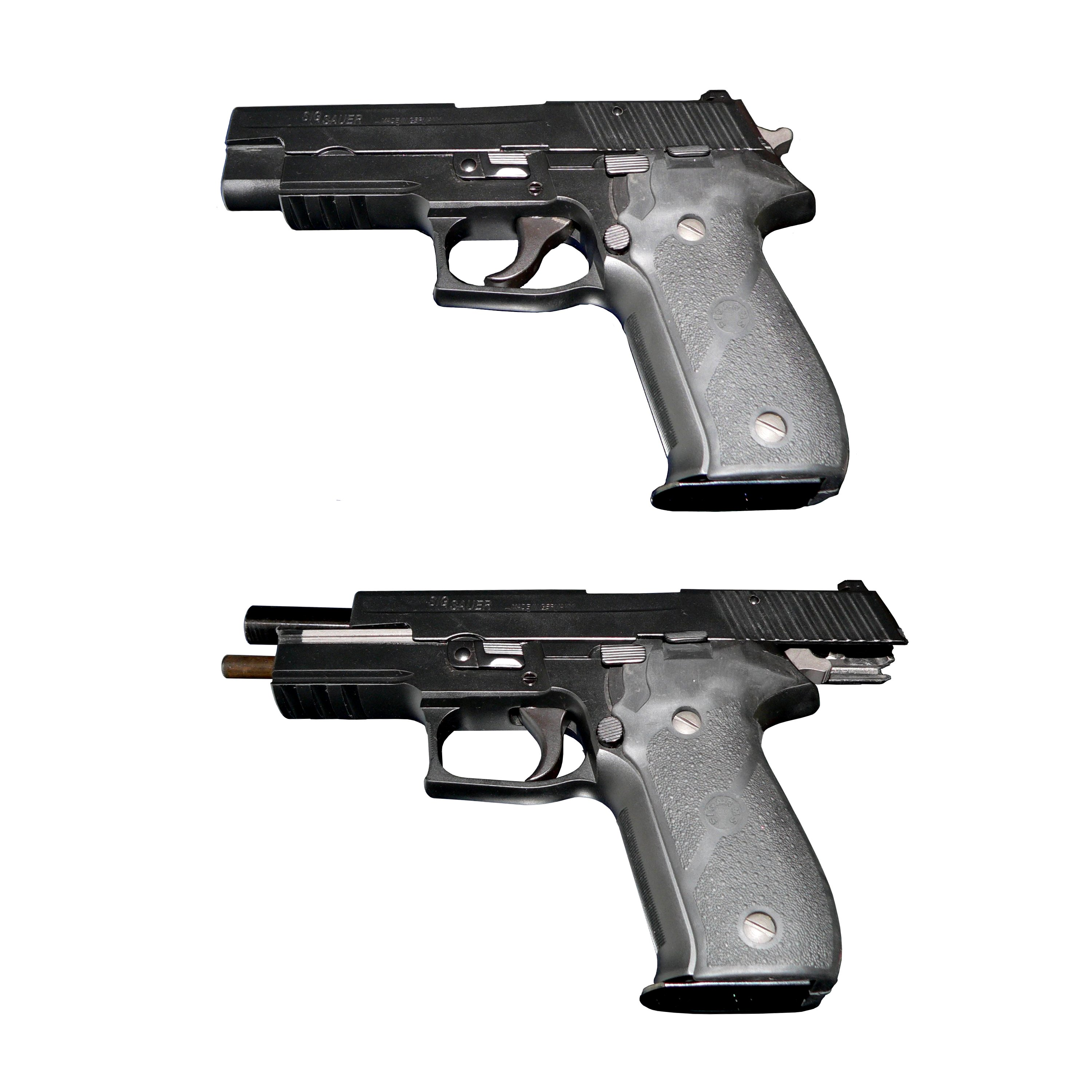 SIG Sauer P 226 with breech opened and closed. Two views of the same weapon.